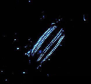 A comb jelly of the genus Euplokamis. Bioluminiscence emitted by a comb jelly of the genus Euplokamis.